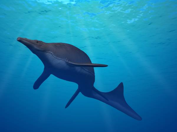 Life reconstruction of Plotosaurus bennisovi